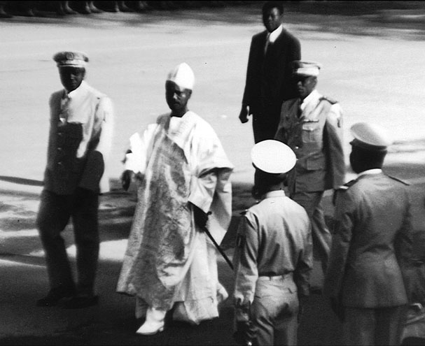 Original caption: President Tombalbaye marching in a parade celebrating the tenth anniversary of independence. (1970)